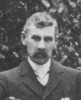 Photograph of Tom McLean in 1900